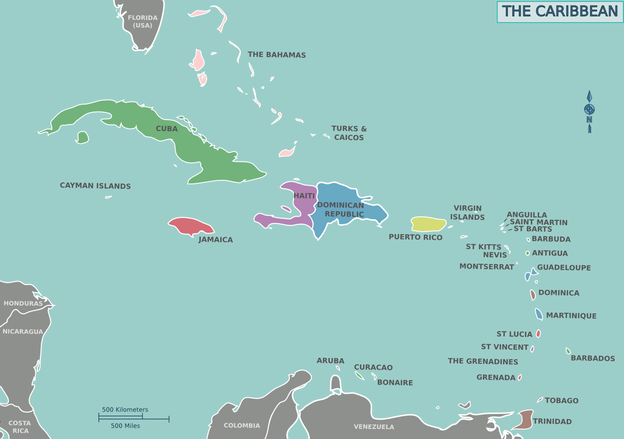 Map of the Caribbean for use on Wikivoyage, English version